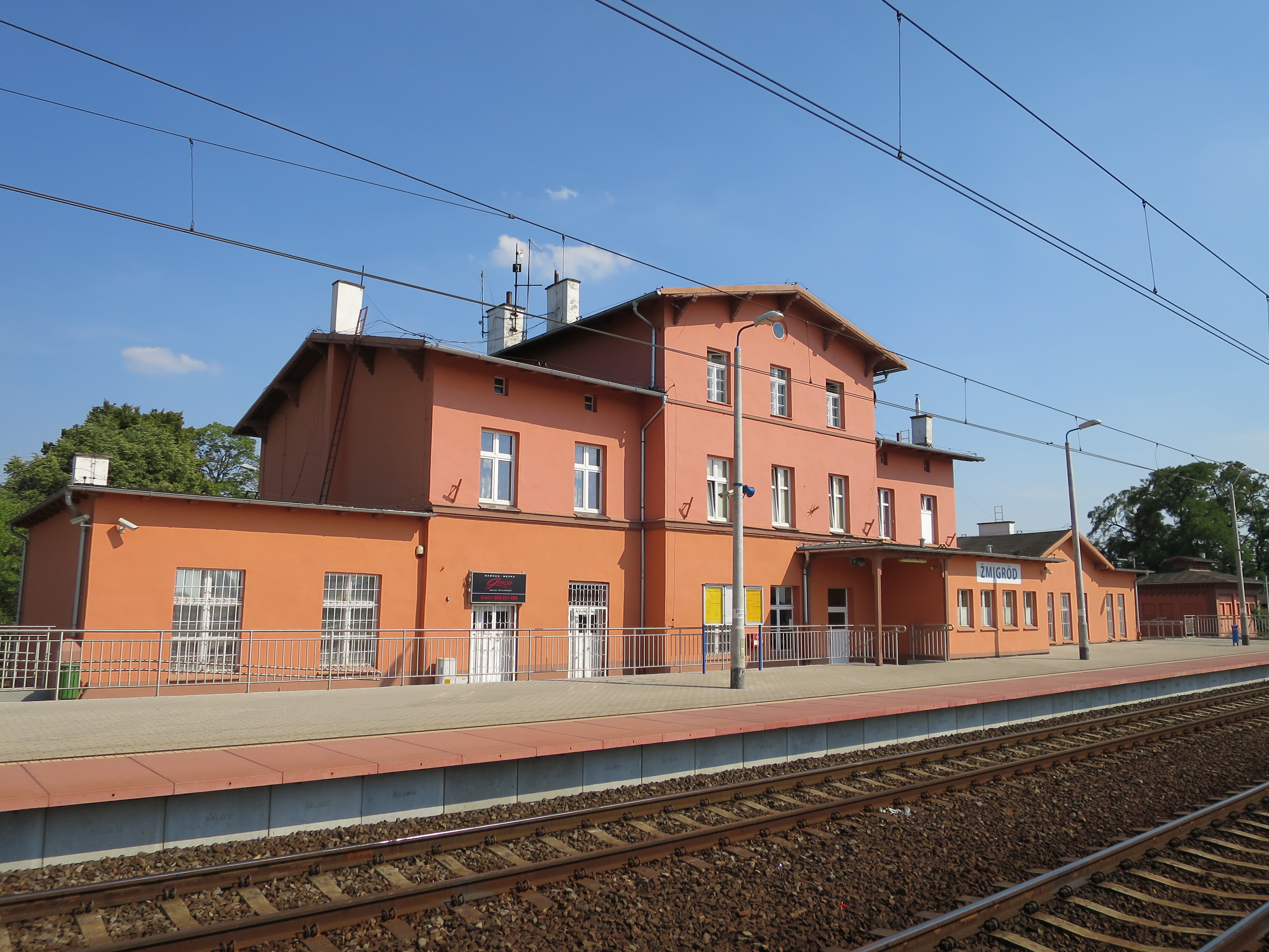 Dworzec w Żmigrodzie This photo was taken during Railway Wikiexpedition 2015 set up by Wikimedia Polska Association in cooperation with Fundacja Grupy PKP. You can see all photographs in category Wikiekspedycja kolejowa 2015.